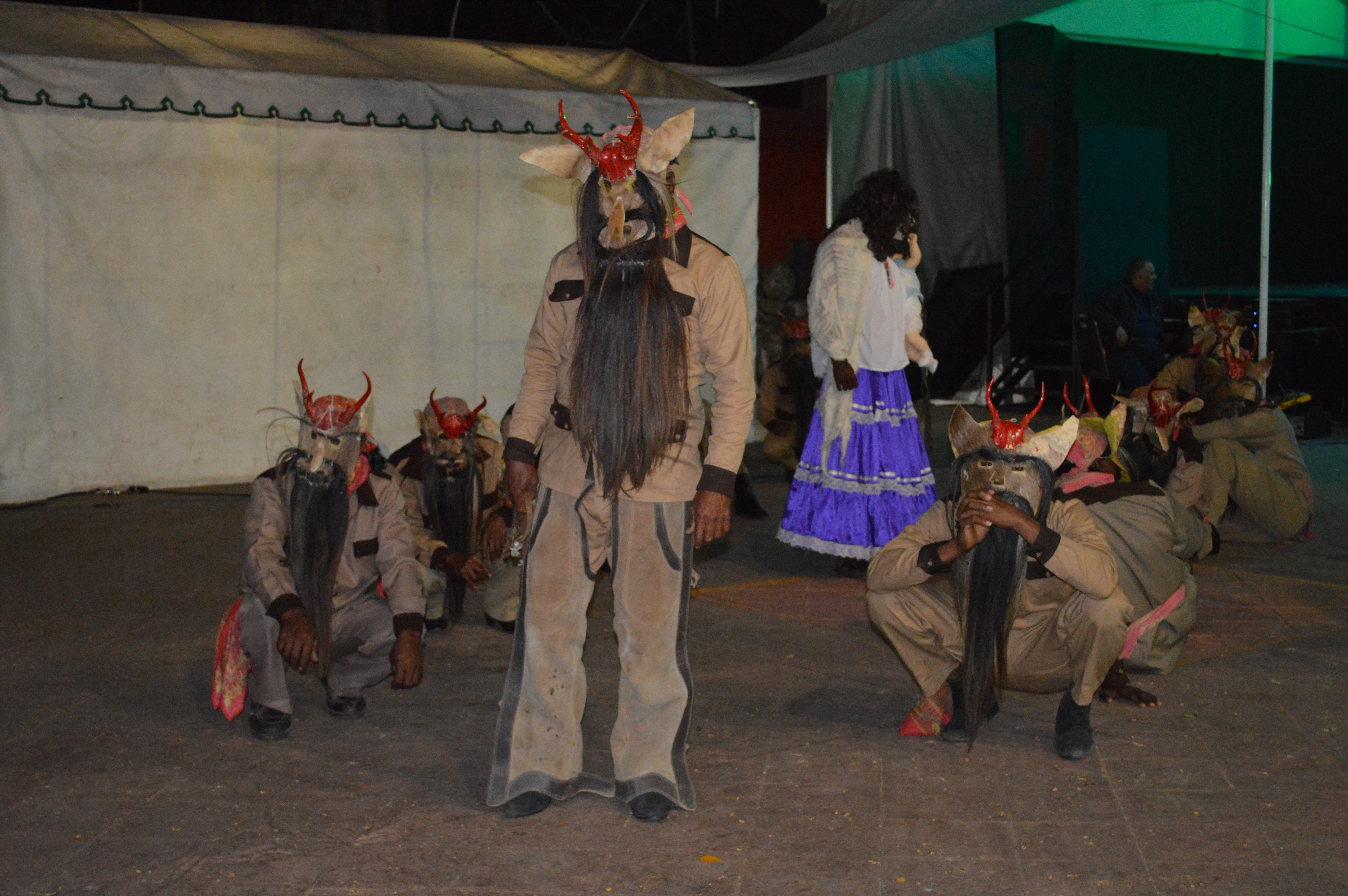 Troupe from PInoteca Nacional dancing the Danza de los Diablos at the opening of the Manos y Alma de Oaxaca exhibition at the Museo Nacional de Culturas Populares in Mexico City